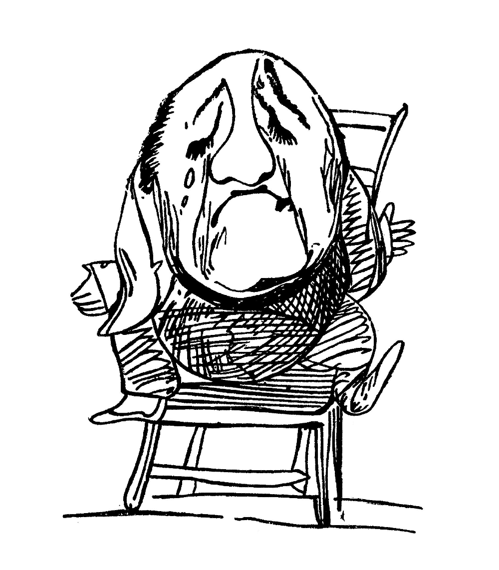 Edward_Lear_A_Book_of_Nonsense_57.jpg